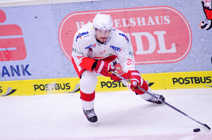 11.10.2013, Stadthalle Villach, AUT, EBEL, 10. Runde, EC VSV vs. HC Bozen, im Bild Trent Whitfield (Foxes #21), // frostworx Pictures © 2013, PhotoCredit: frostworx / Alex Micheu